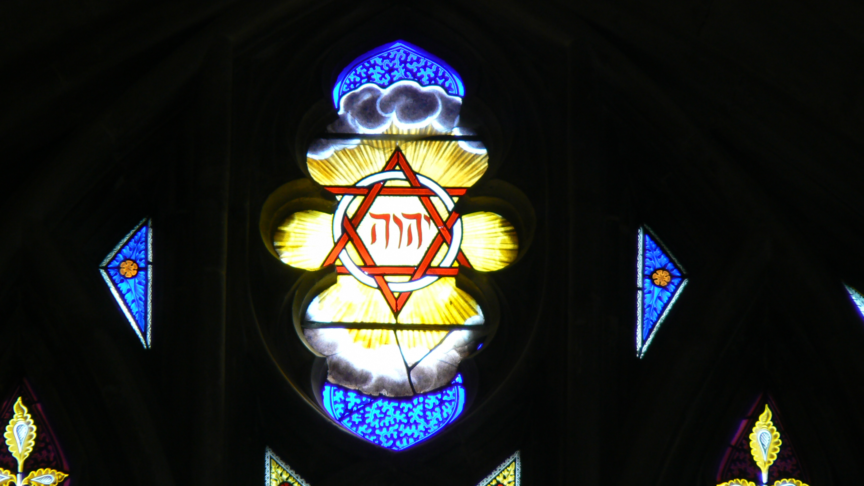 Stained glass, tetragrammaton, Winchester Cathedral, YHWH, Jehovah